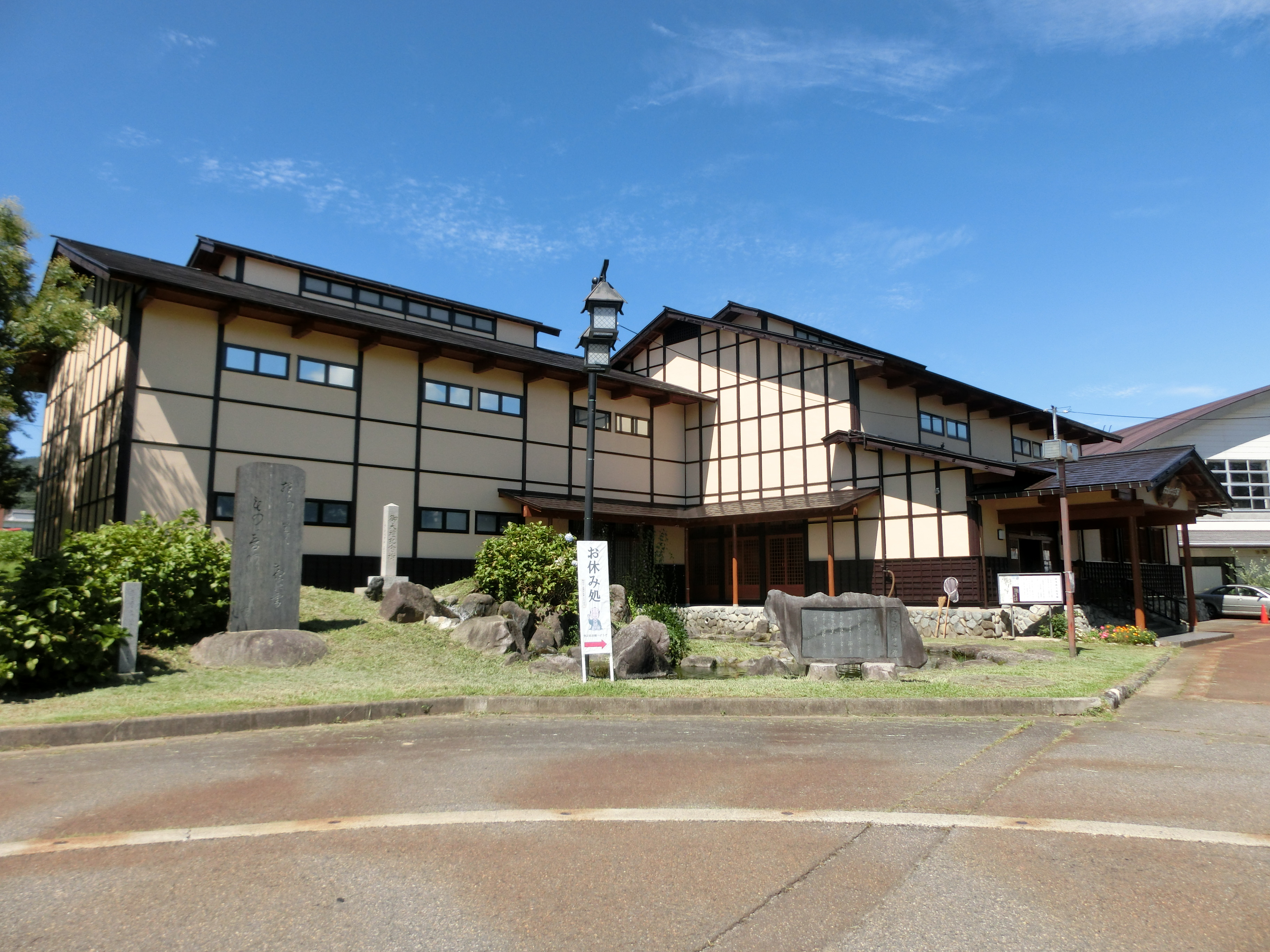 Suzuki Bokushi Memorial Hall